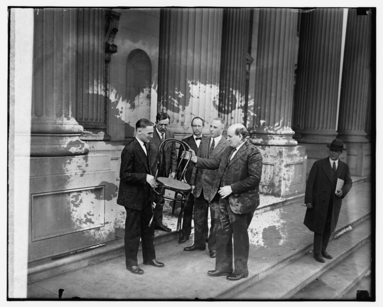 Shows Senator Gerald Nye of North Dakota symbolically receiving his seat in the United States Senate